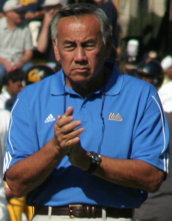 Norm Chow on the sidelines at the 2008 UCLA vs. Cal college football game.